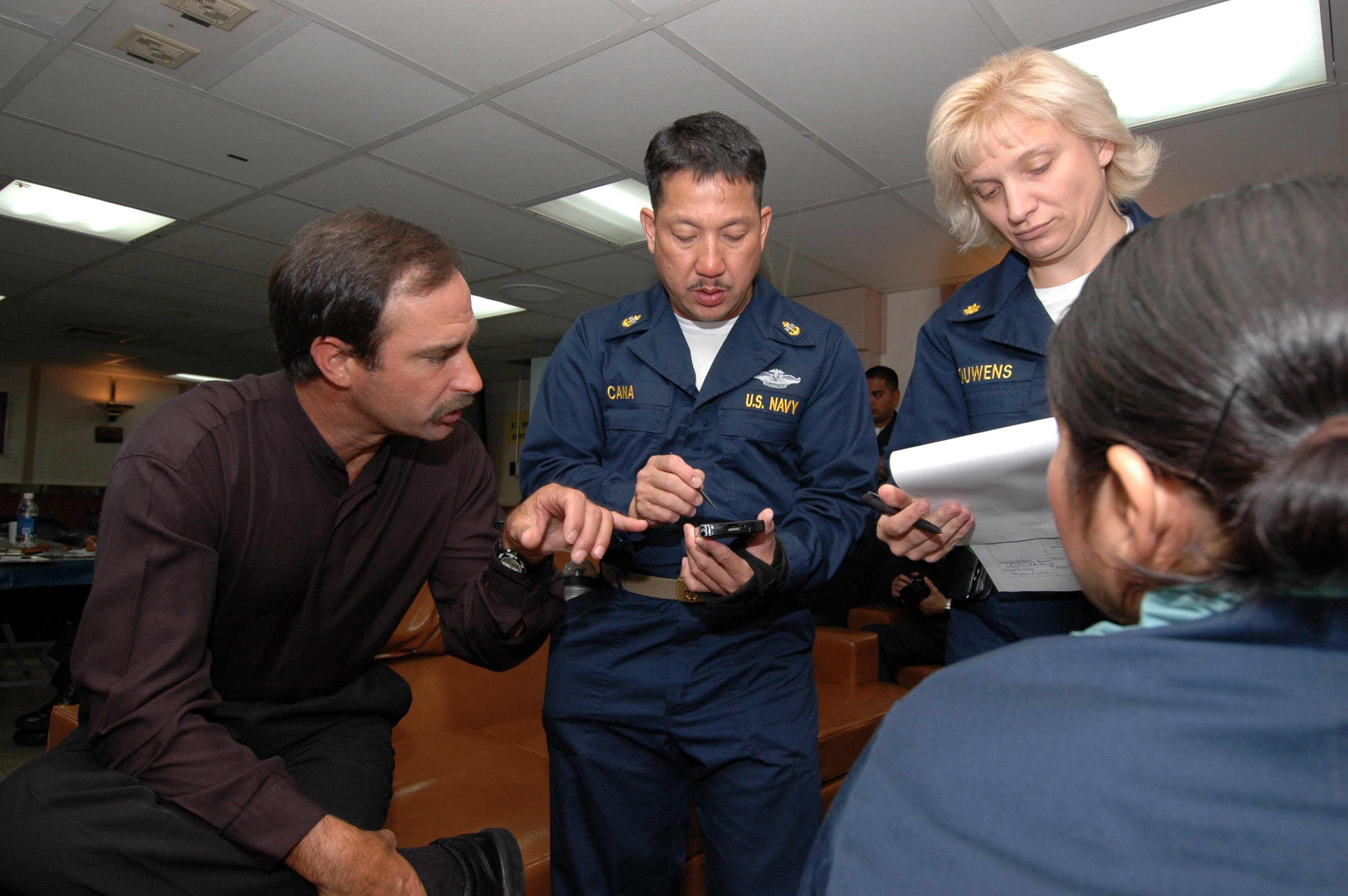 Pacific Ocean (May 18, 2006) - Senior training specialist with Multi-Services Group International (MSGI), Michael Bedwell, trains Sailors to use Battlefield Medical Information Systems Telemedicine (BMIST) equipped Personal Digital Assist's (PDA) aboard the Military Sealift Command (MSC) hospital ship USNS Mercy (T-AH 19). Mercy is conducting a five-month humanitarian deployment to South and Southeast Asia and the Pacific Islands. The medical crew aboard Mercy will provide general and ophthalmology surgery, basic medical evaluation and treatment, preventive medicine treatment, dental screenings and treatment, optometry screenings, eyewear distribution, public health training and veterinary services as requested by the host nations. Like all U.S. Naval forces Mercy is able to rapidly respond to a range of situations on short notice. Mercy is uniquely capable of supporting medical and humanitarian assistance needs and is configured with special medical equipment and a robust multi-specialized medical team who can provide a range of services ashore as well as aboard the ship. The medical staff is augmented with an assistance crew, many of whom are part of non-governmental organizations that have significant medical capabilities. U.S. Navy photo by Journalist Seaman Apprentice Mike Leporati (RELEASED)